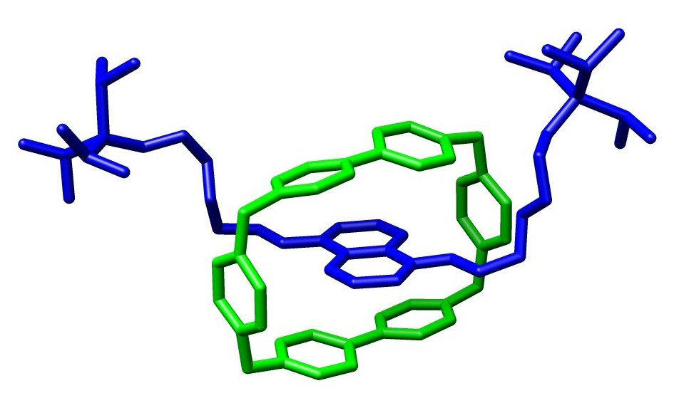 This is a picture generated from a crystal structure data reported by Jose A. Bravo, Francisco M. Raymo, J. Fraser Stoddart, Andrew J. P. White, and David J. Williams in the European Journal of Organic Chemistry 1998, 2565-2571. It shows a rotaxane with a cyclobis(paraquat-p-phenylene) macrocyle. It was made by myself and is free to be used by all.